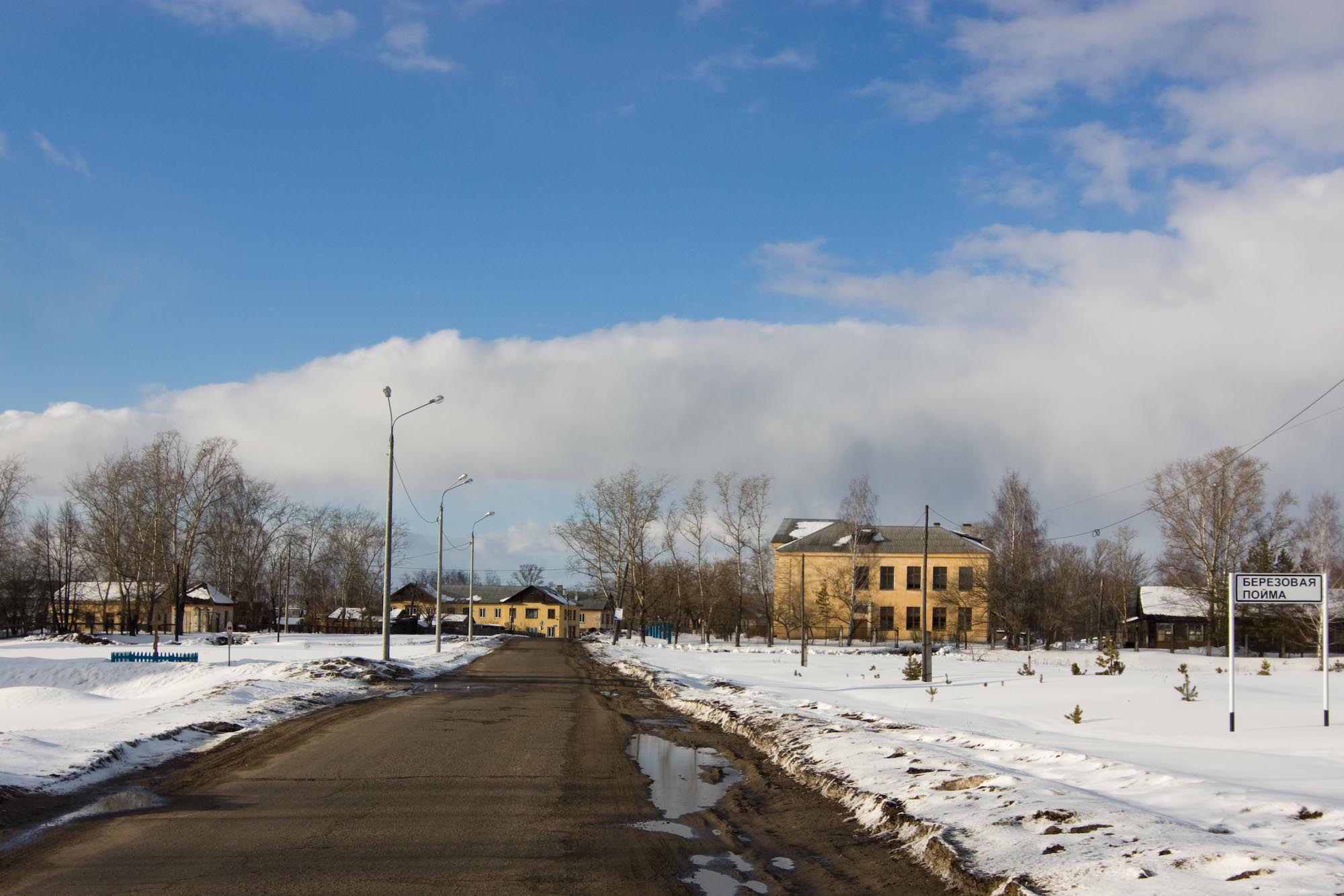 At the entry to settlement Beryozovaya Poima, Nizhny Novgorod City.